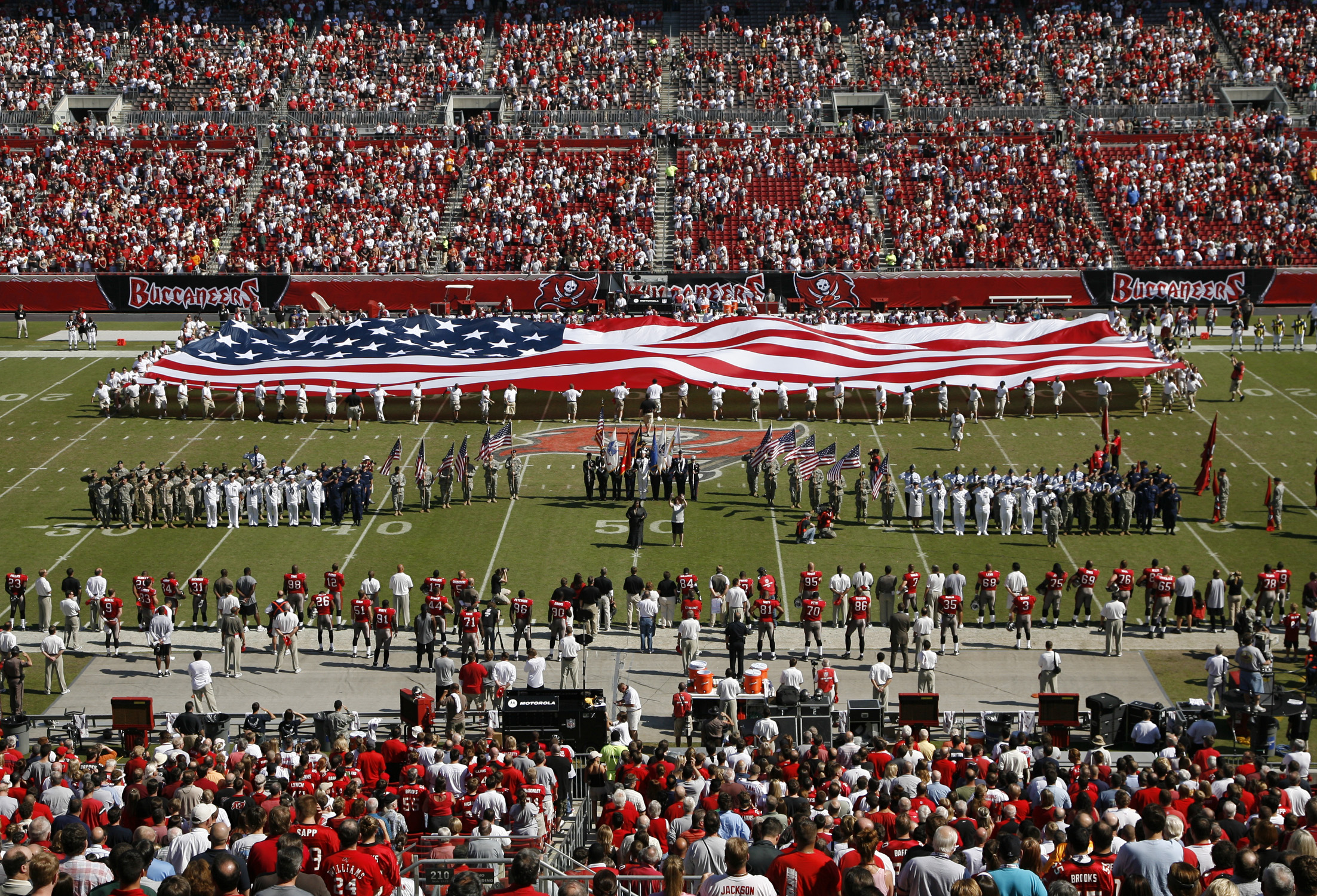 Delayed Enlistment Program members stretched a giant flag over the field during pre-game ceremonies at a Nov. 4 NFL game between the Tampa Bay Buccaneers and the Arizona Cardinals. (Air Force photo/Staff Sgt. Jeff Storman)